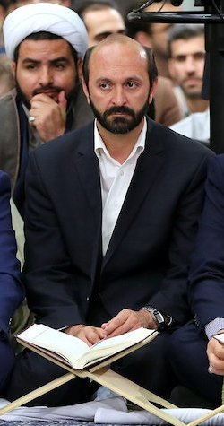 Toosi at annual Ramadan Quranic meeting